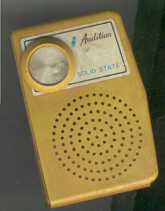 'Audition' brand pocket transistor radio